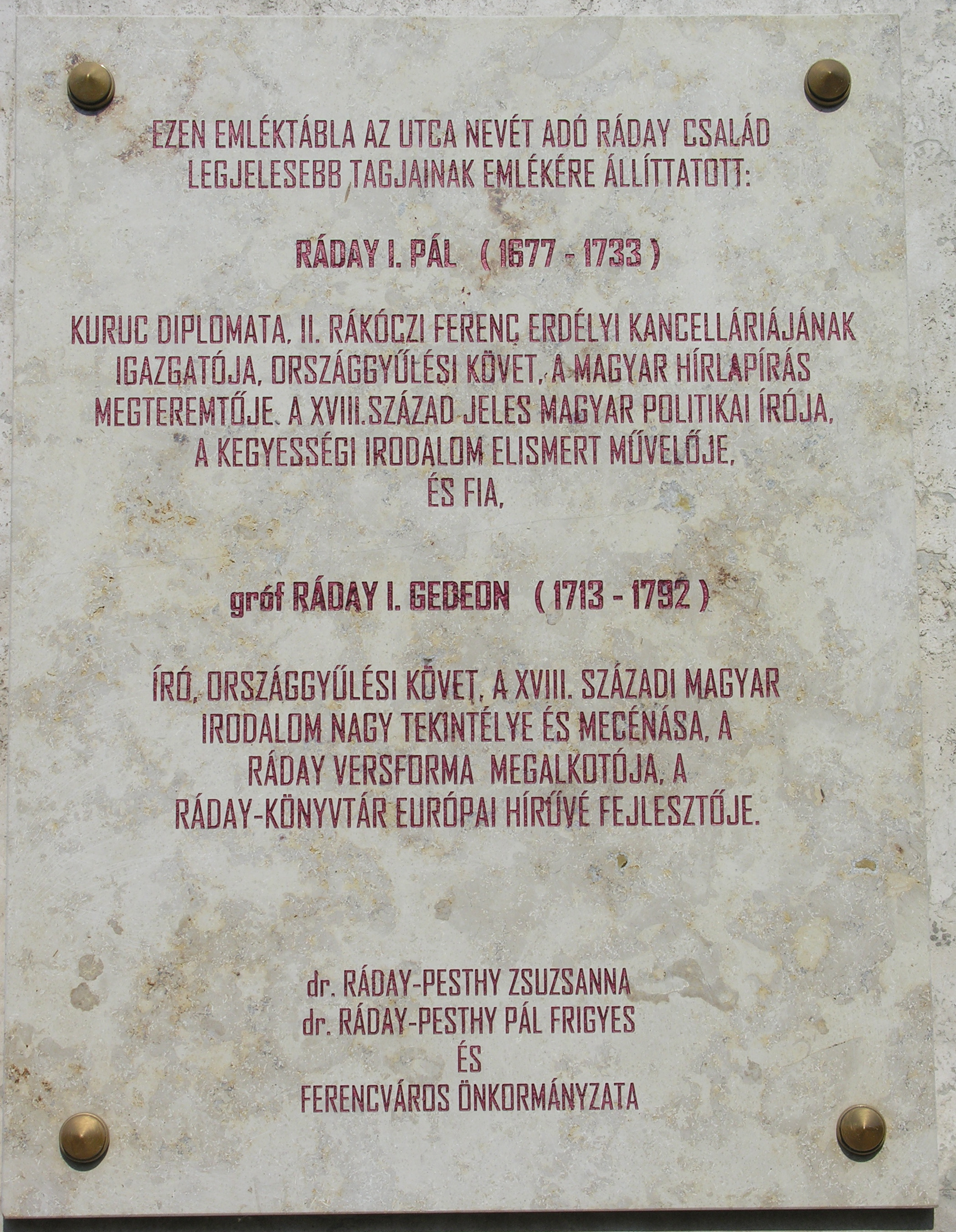 Commemorative plaque of Pál Ráday (1677–1733) and Gedeon Ráday (1713–1792) in Budapest District IX, Ráday Street No 2